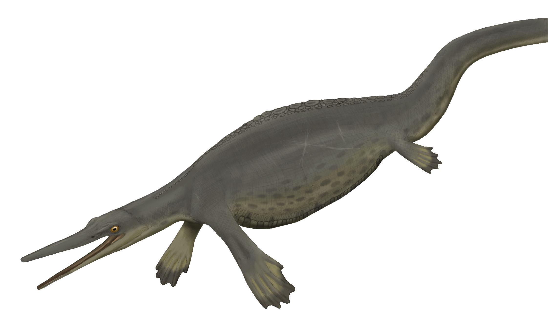 Life restoration of Hupehsuchus nanchangensis.